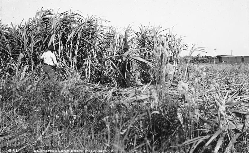 Cutting sugar cane in Louisiana